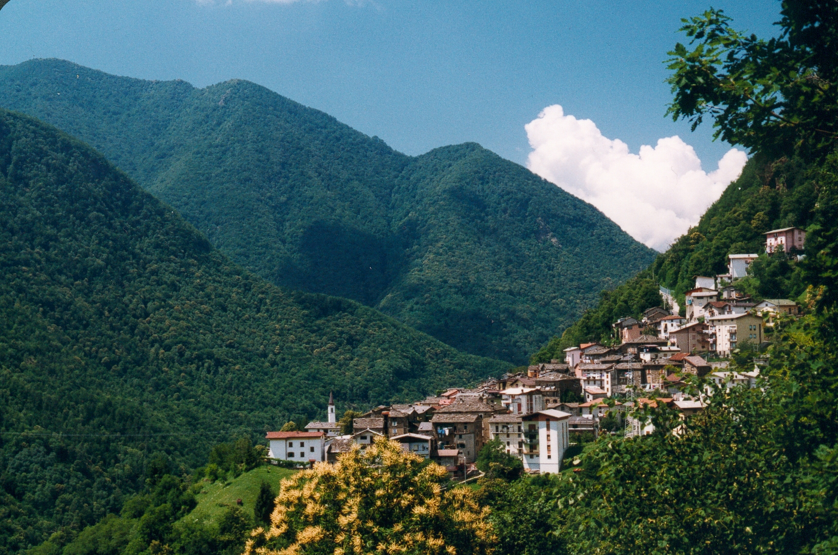 Italian town Pagnona in province of Lecco, Lombardy. Viewed from east.